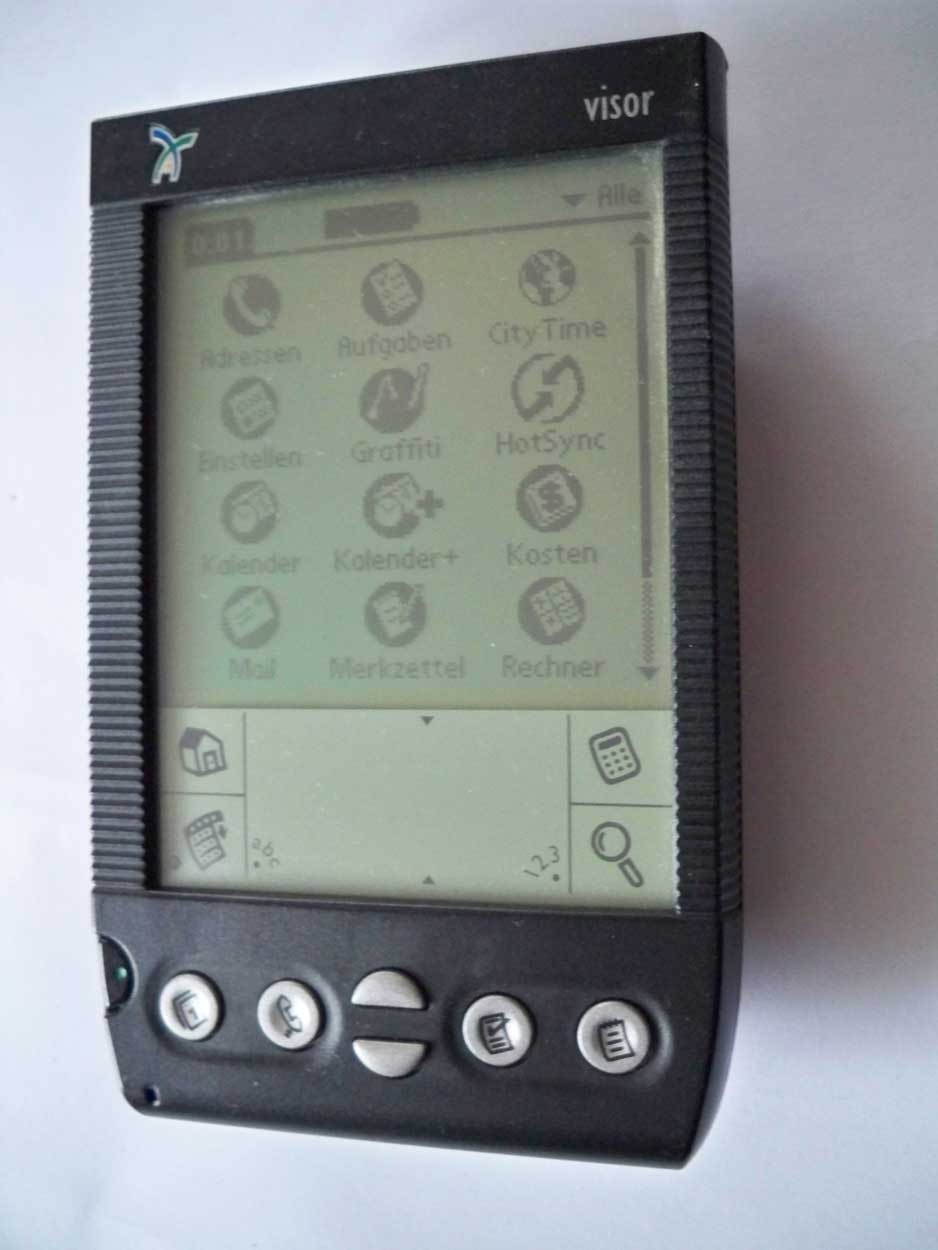 Personal Digital Assistant Handspring Visor DeLuxe, black